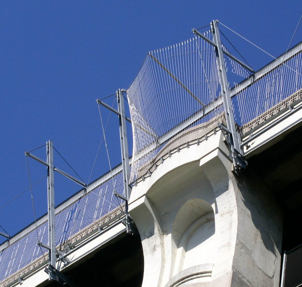 Prince Edward Viaduct photo, showing Luminous Veil Author: Geoffrey Nham Date: October 2005